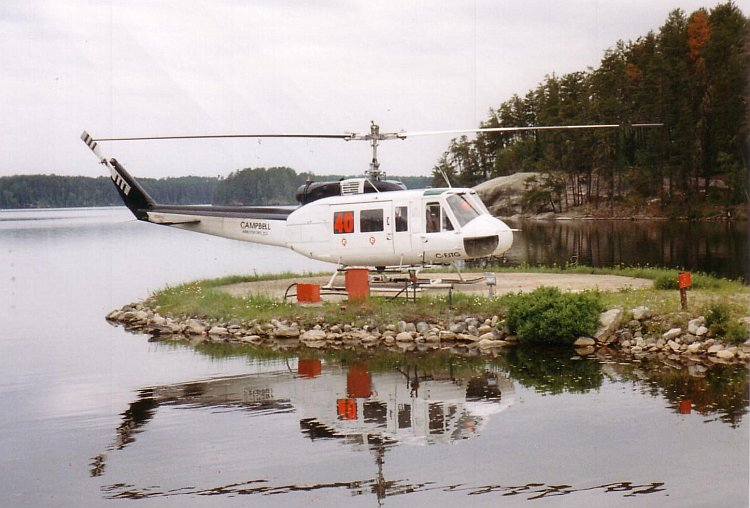 I took this photo of a Bell 205A (C-FJTG) on firefighting duty with the Ontario Ministry of Natural resources at Nym Lake, ON, 1996